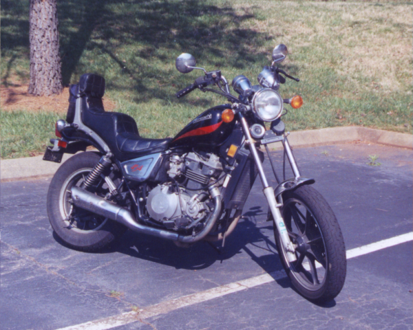 A photograph I took of my 1986 Kawasaki 454 LTD.